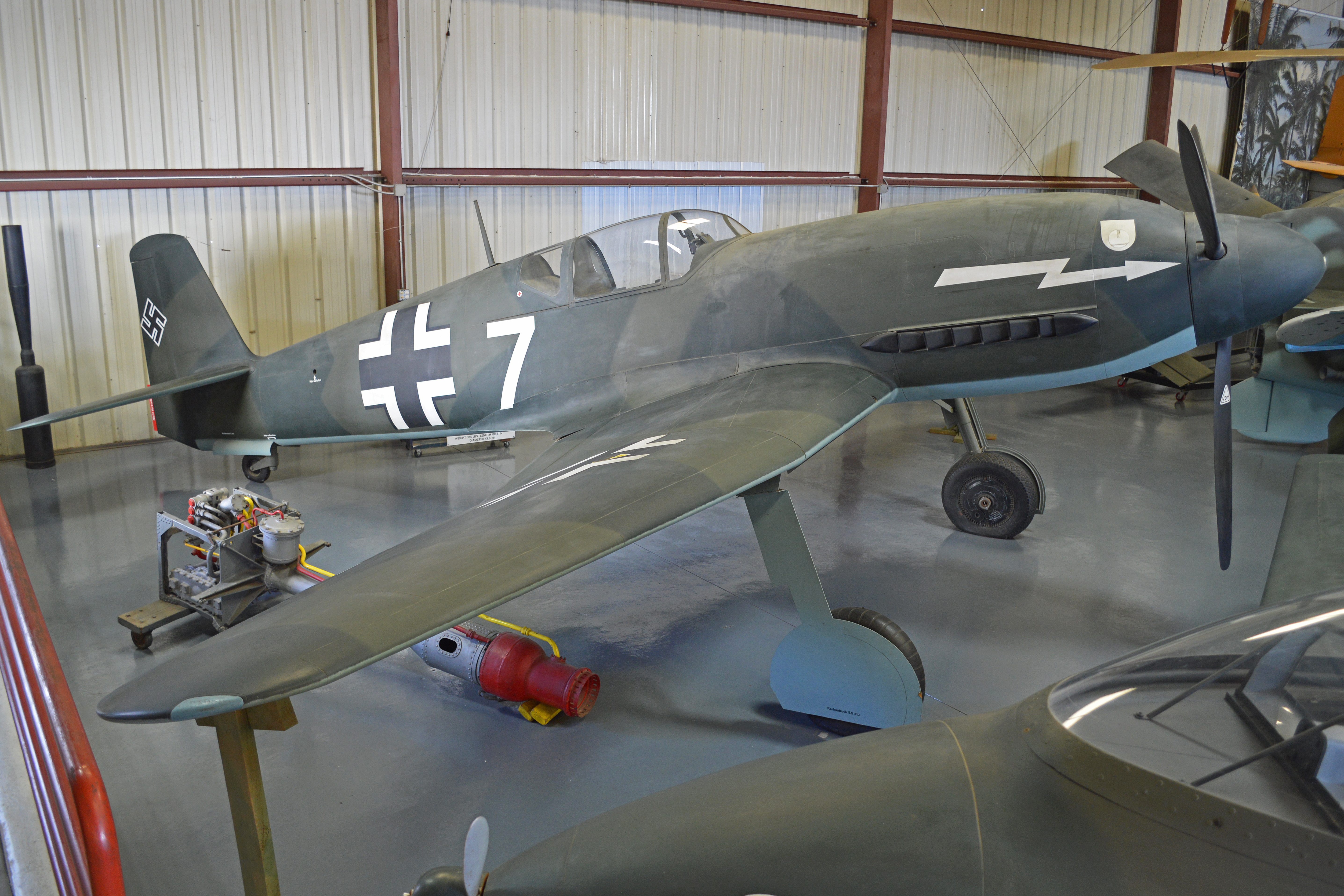 On display in the ‘Foreign’ hangar at the Planes of Fame Museum, Chino, California, USA. 28-2-2016